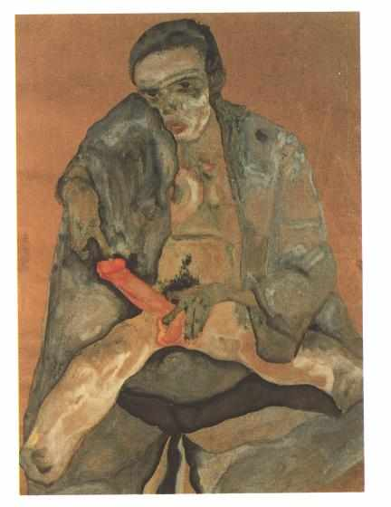 Eros